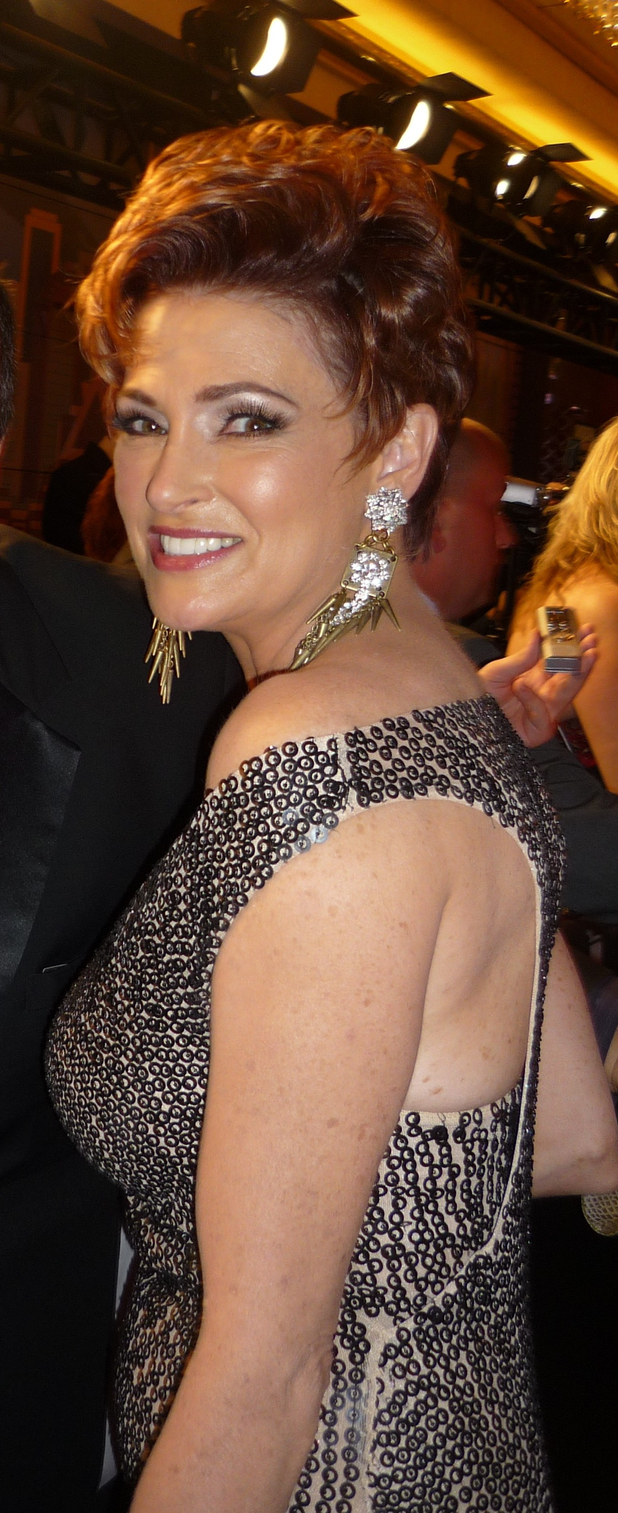 Actress Carolyn Hennesy at 2010 Daytime Emmy Awards.